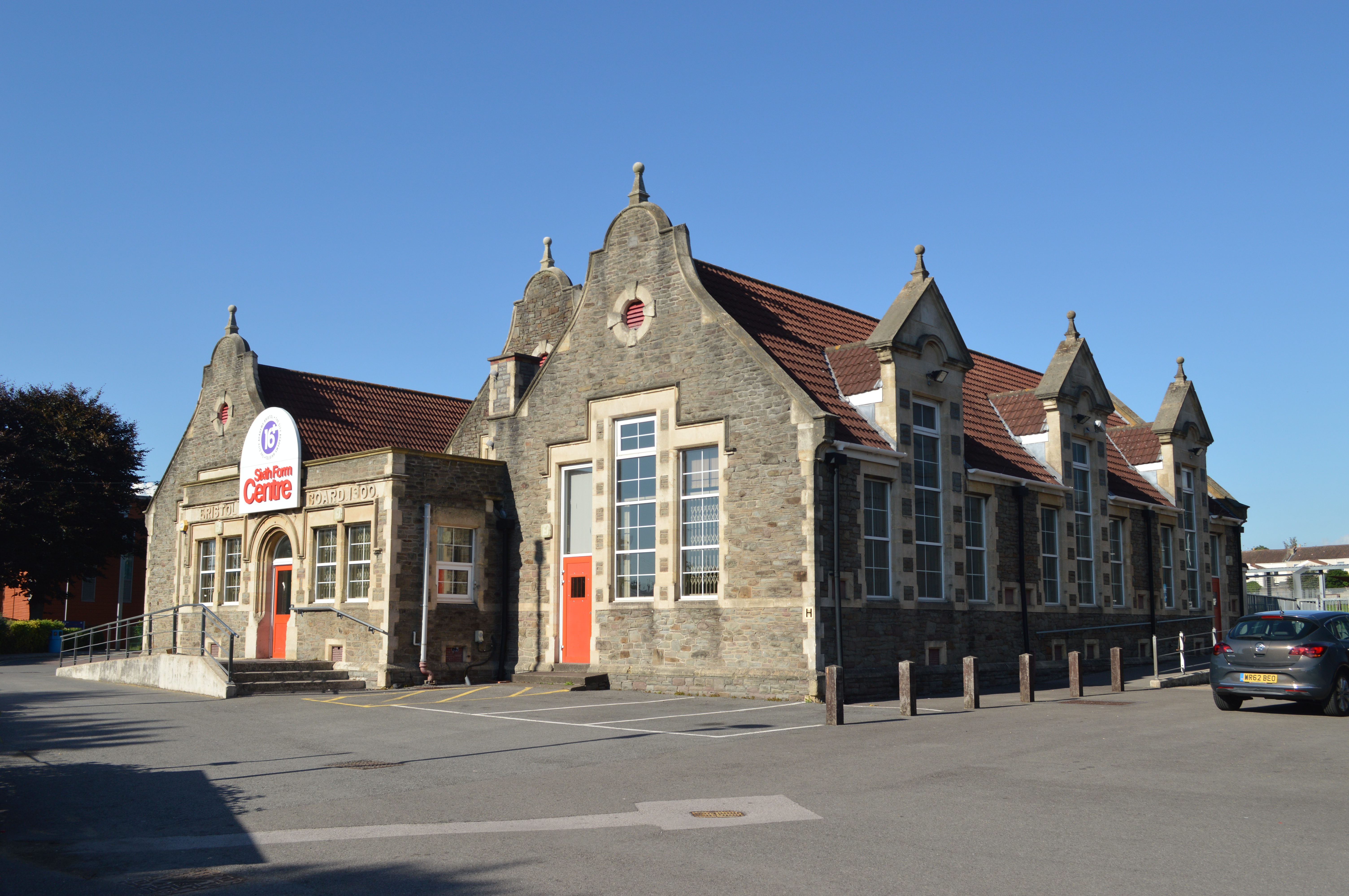 Carlton House, the sixth form centre, of The City Academy, Bristol.